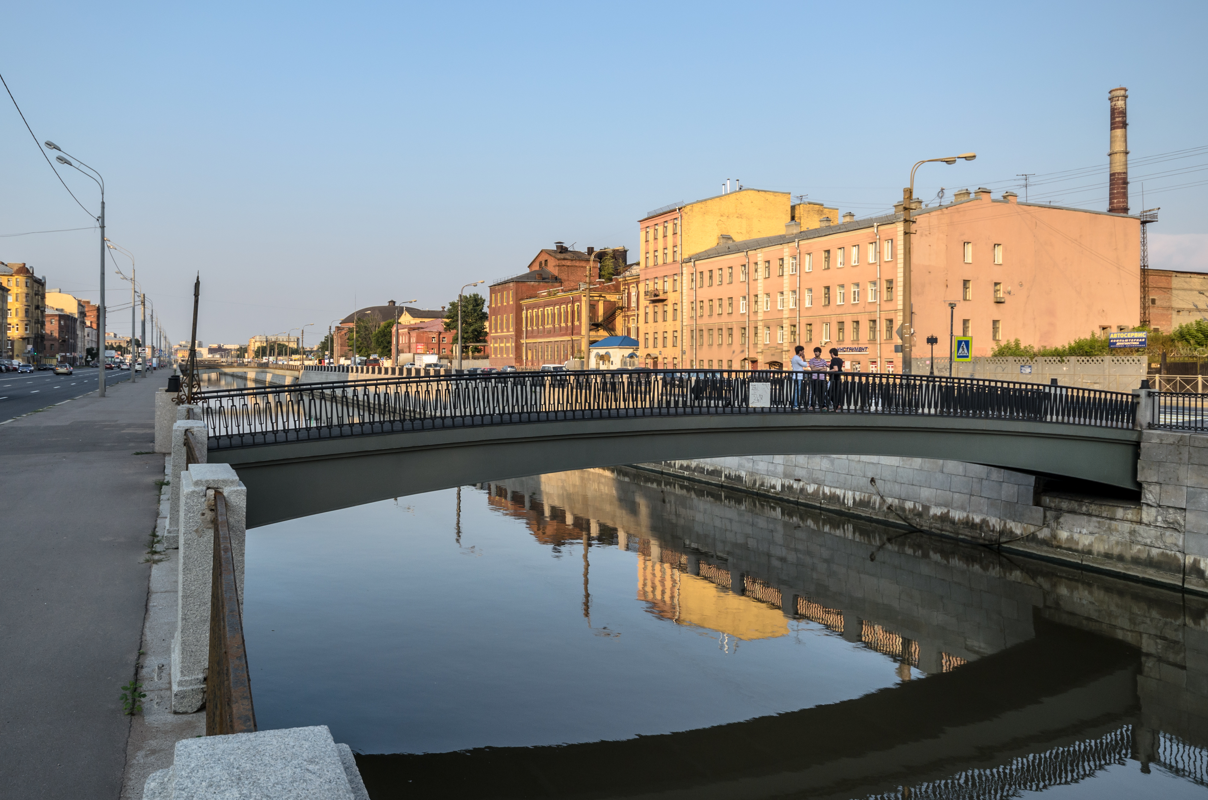 Maslyany Bridge in Saint Petersburg